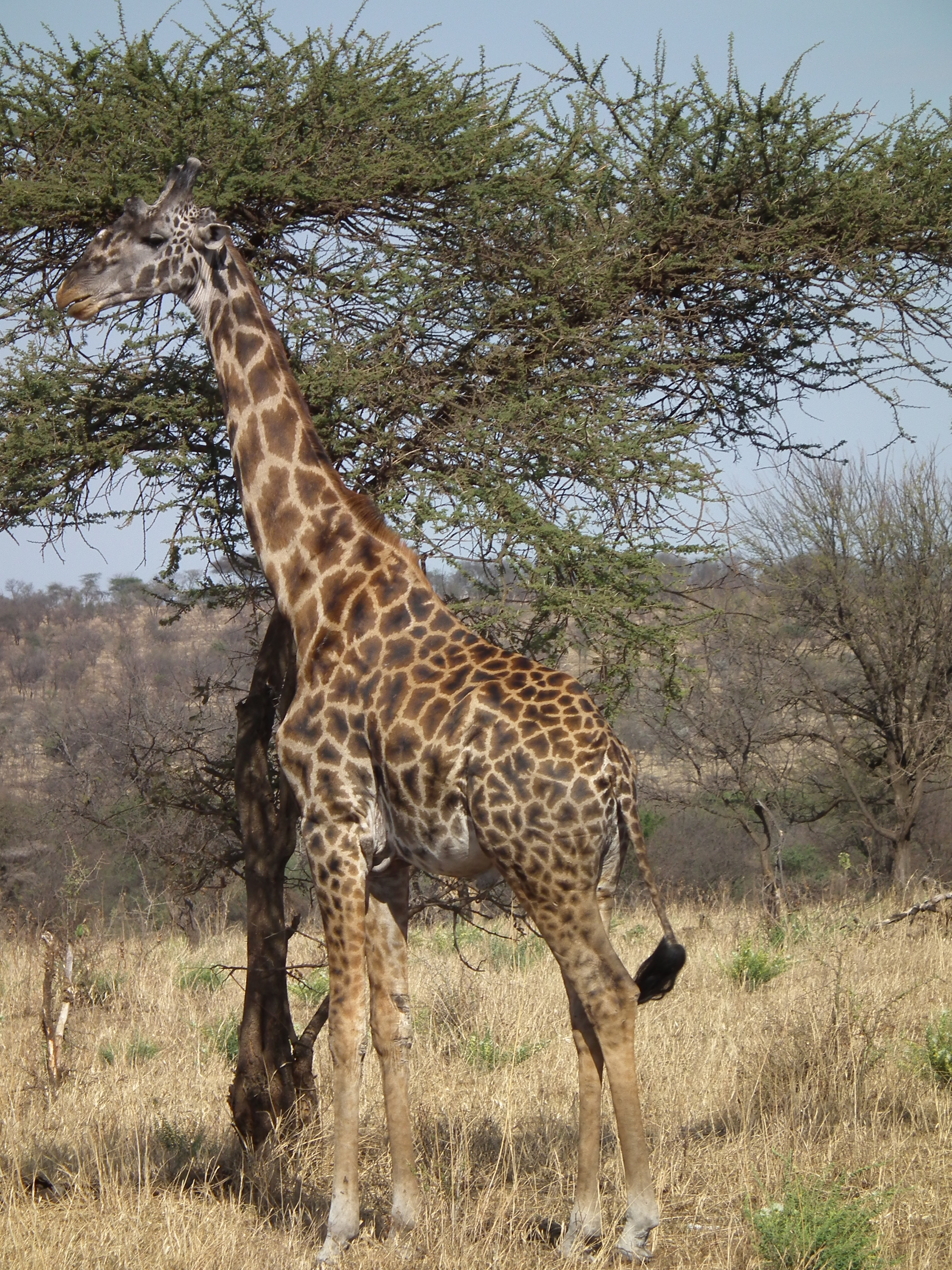 Masai Giraffe or Giraffa camelopardalis tippelskirchi of Tanzania